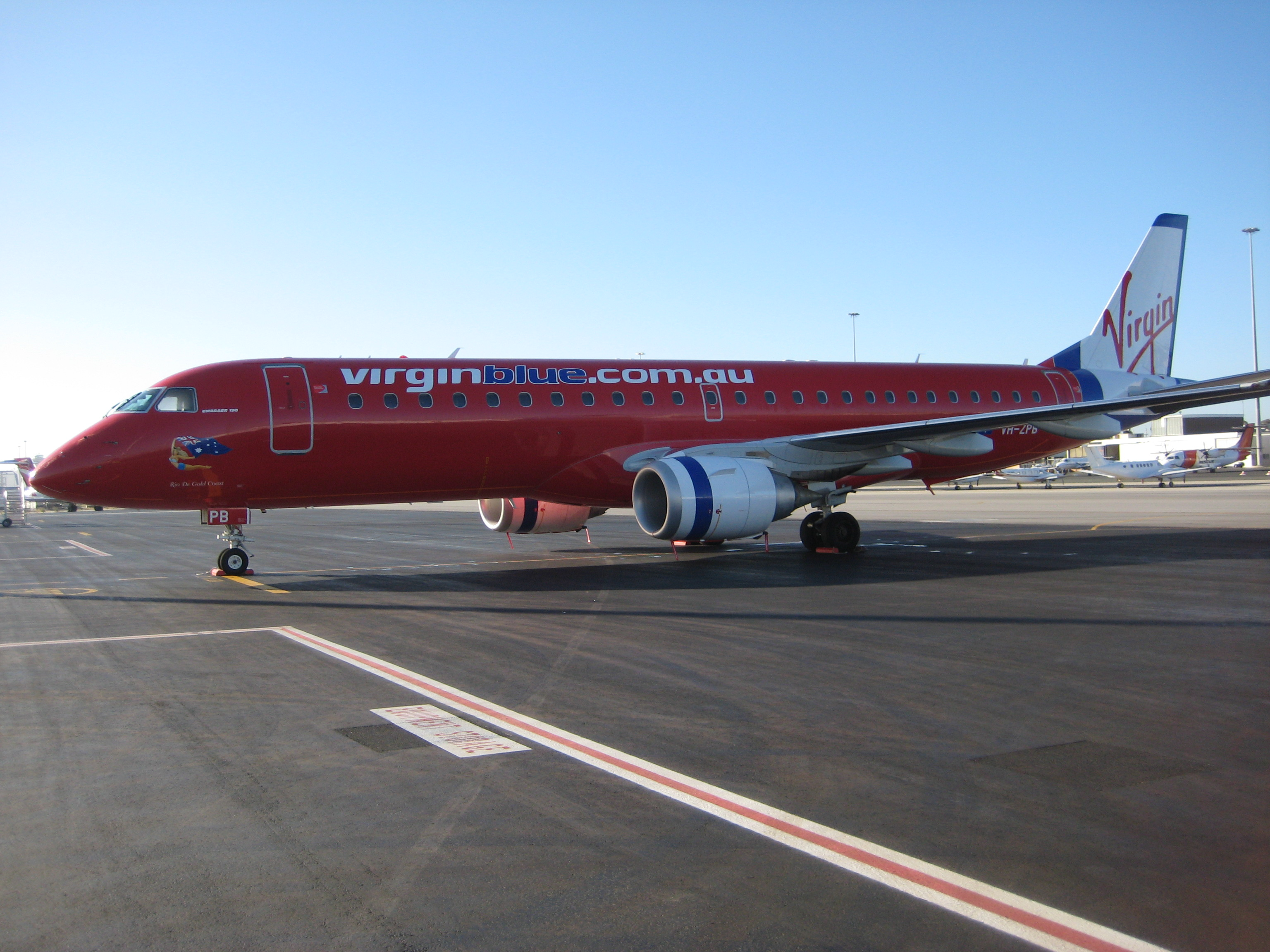 Virgin Blue Embraer ERJ 190-100ER VH-ZPB in Perth Airport